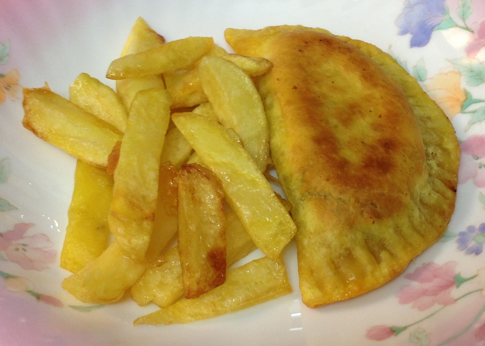 Iranian pirashki (pirozhki), with French fries. Fārsi: Pirāški (pirāžki), bā sibzemini e sorx-karde.